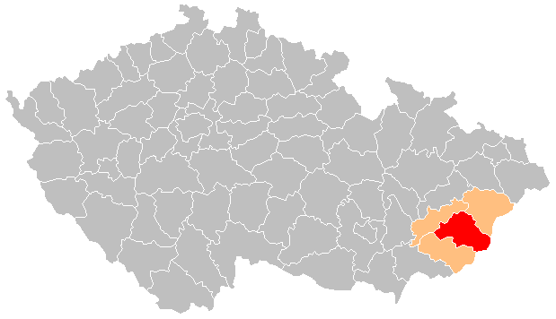 District of Zlín